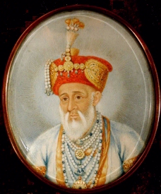 Azim Jah, Prince of Arcot (1867 - 1874).. Azim Jah was the brother of Azam Jah, the eleventh Nawab of the Carnatic and uncle of Ghulam Muhammad Ghouse Khan, the twelfth and last Nawab of the Carnatic. He held the title Nawab of Arcot from 1867 to 1874 in the area of South India now known as Tamil Nadu.